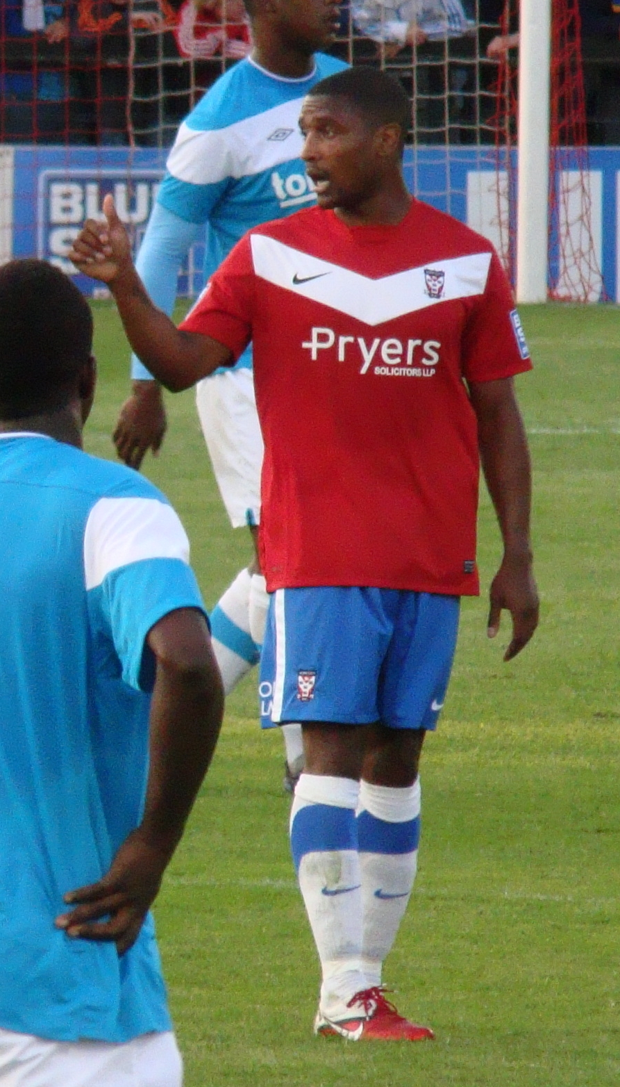 Andre Boucaud playing for York City against Sunderland at Bootham Crescent, York on 13 July 2011